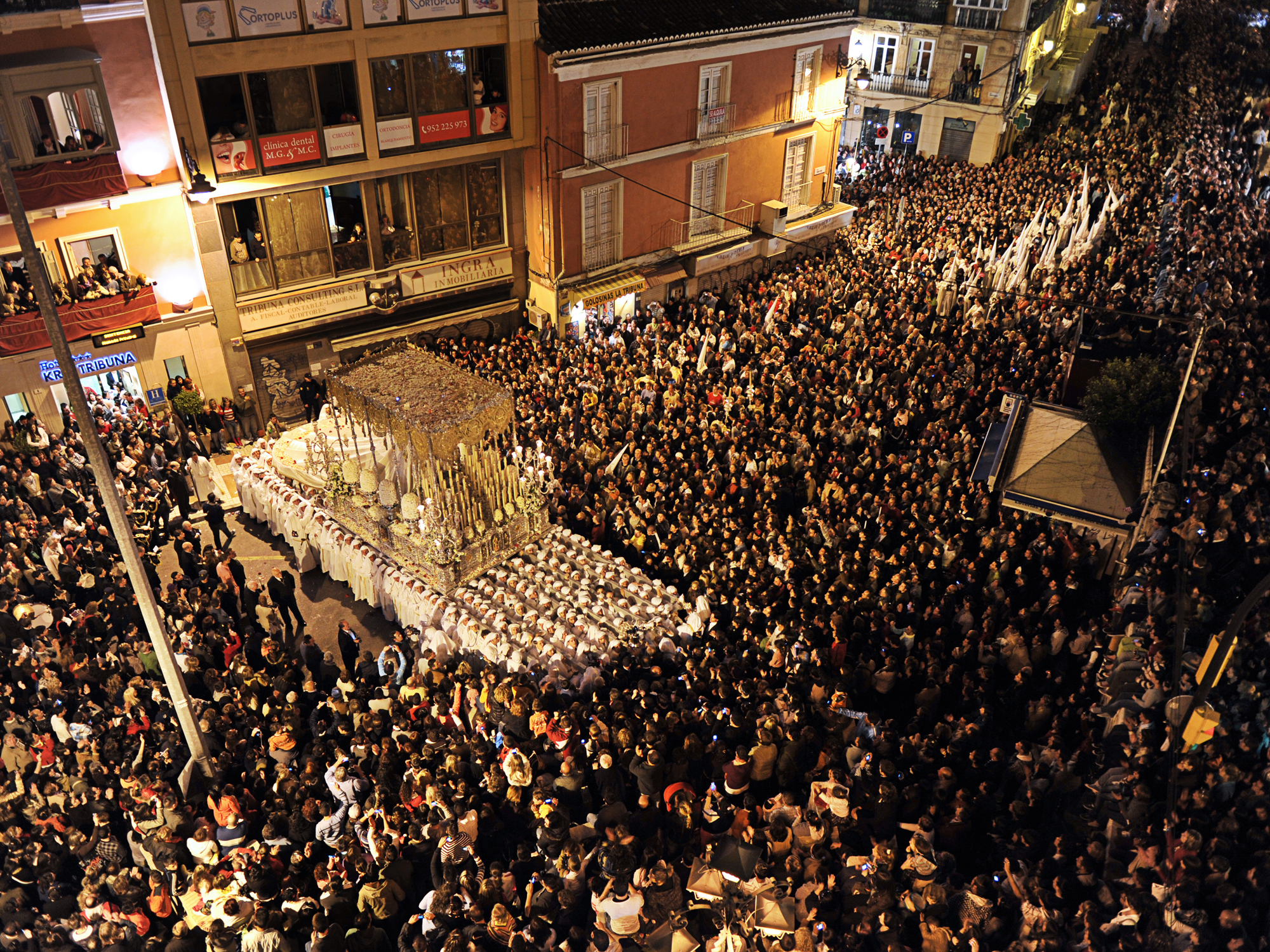 Holy Week in Malaga (Spain). Virgen del Rocio.